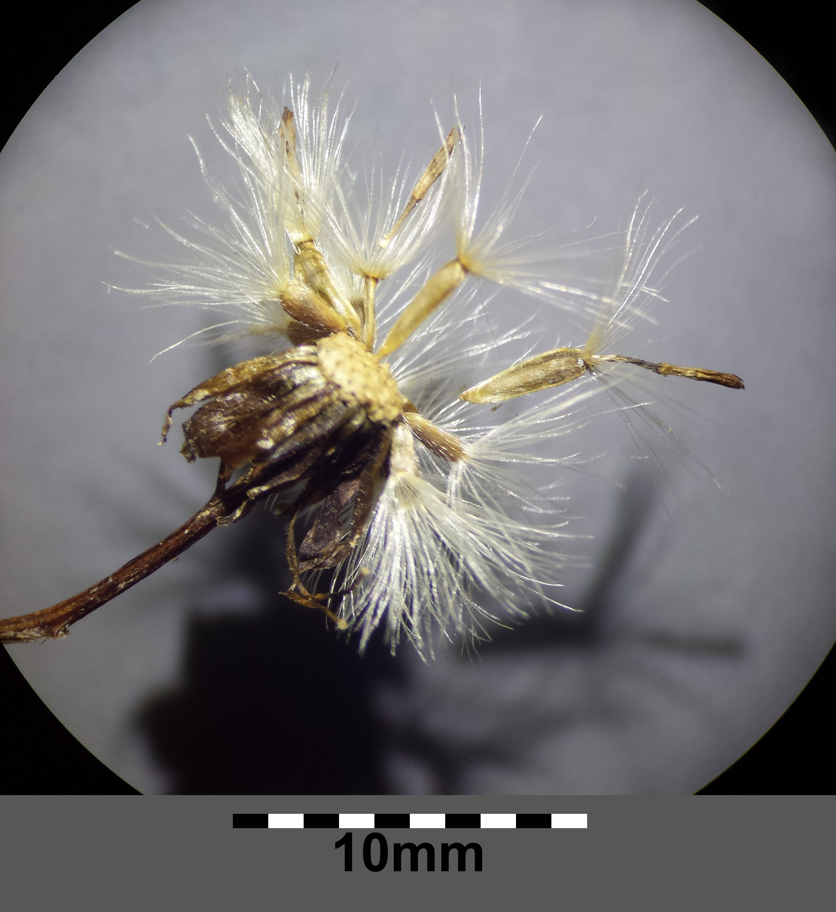 Flower basket with fruits Taxonym: Tripolium pannonicum (subsp. pannonicum) ss Fischer et al. EfÖLS 2008 ISBN 978-3-85474-187-9 Location: next to Zwingendorfer, district Mistelbach, Lower Austria - ca. 185 m a.s.l. Habitat: fallow land